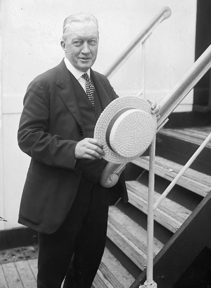 Photograph of John Russell Pope, architect of Jefferson Memorial and National Gallery of Art (west building) in Washington, DC.